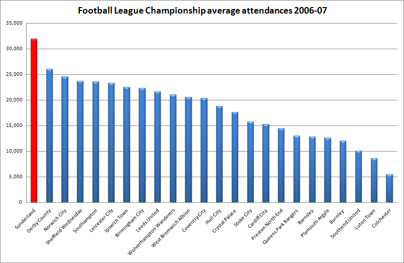 Average attendance of Football League Championship teams in 2006-07 season.